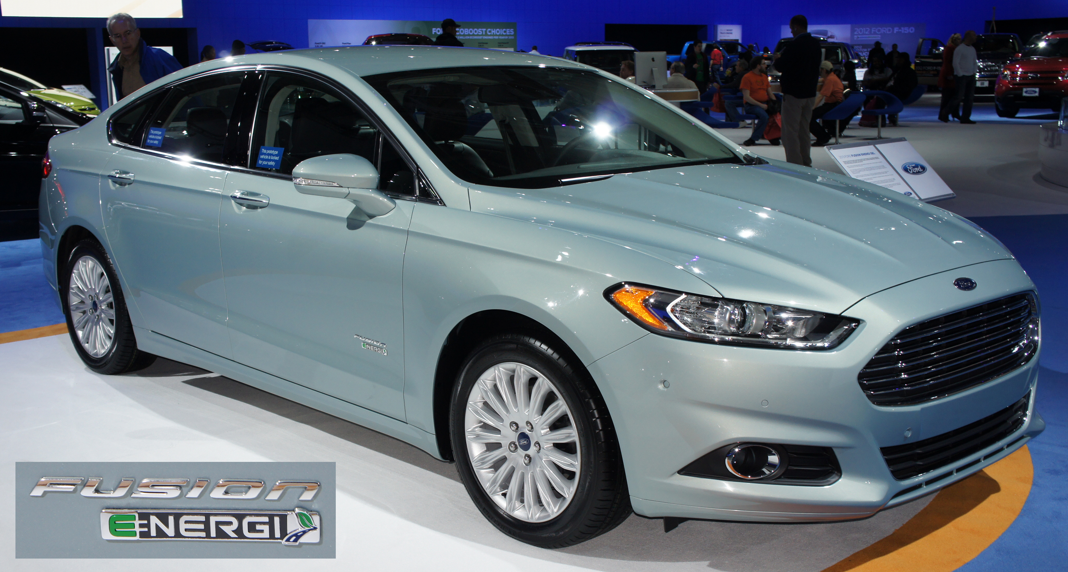 2013 Ford Fusion Energi SEL plug-in hybrid exhibited at the 2012 Washington Auto Show, District of Columbia.